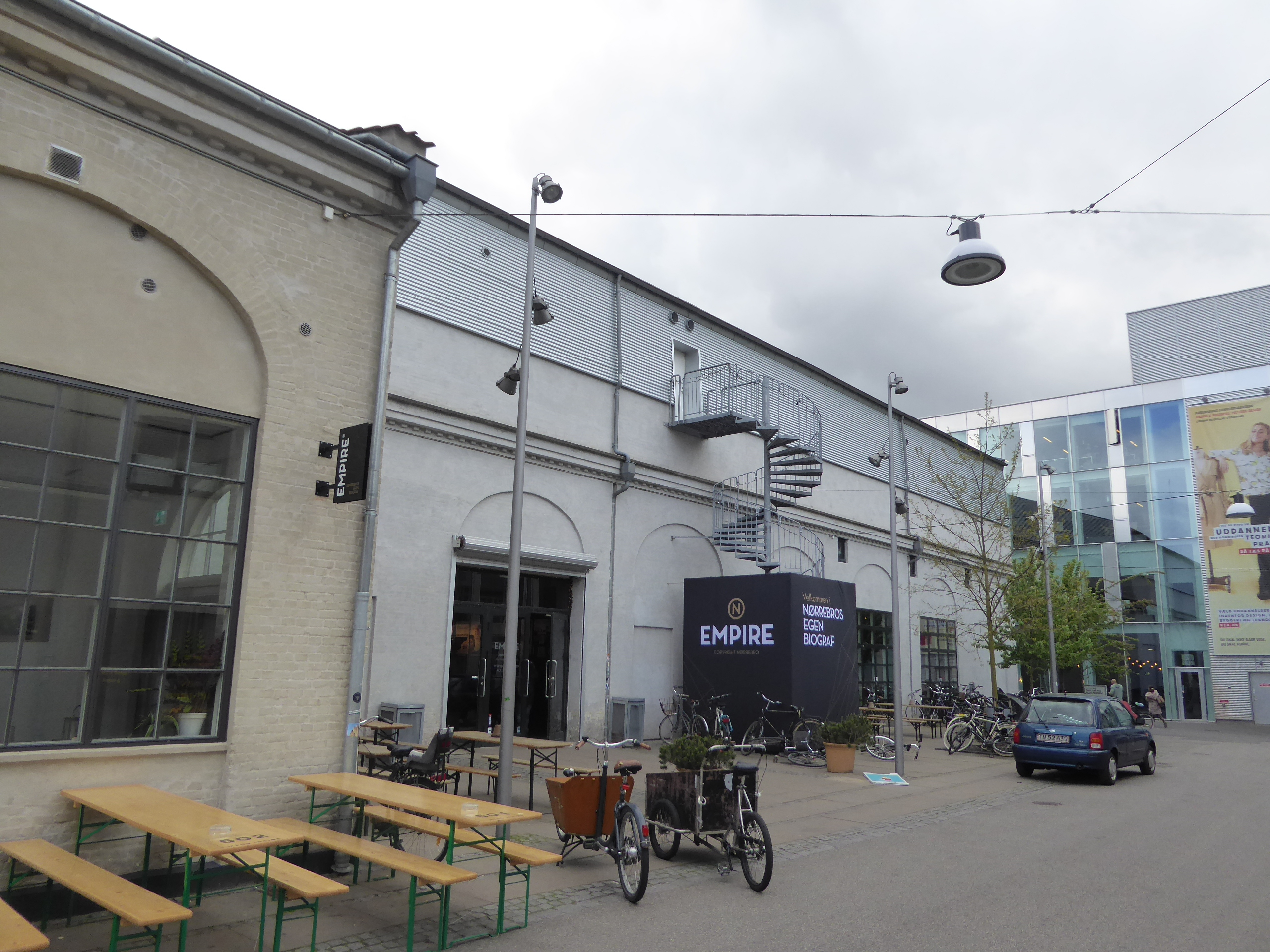 The cinema Empire Bio at Guldbergsgade in Nørrebro in Copenhagen.